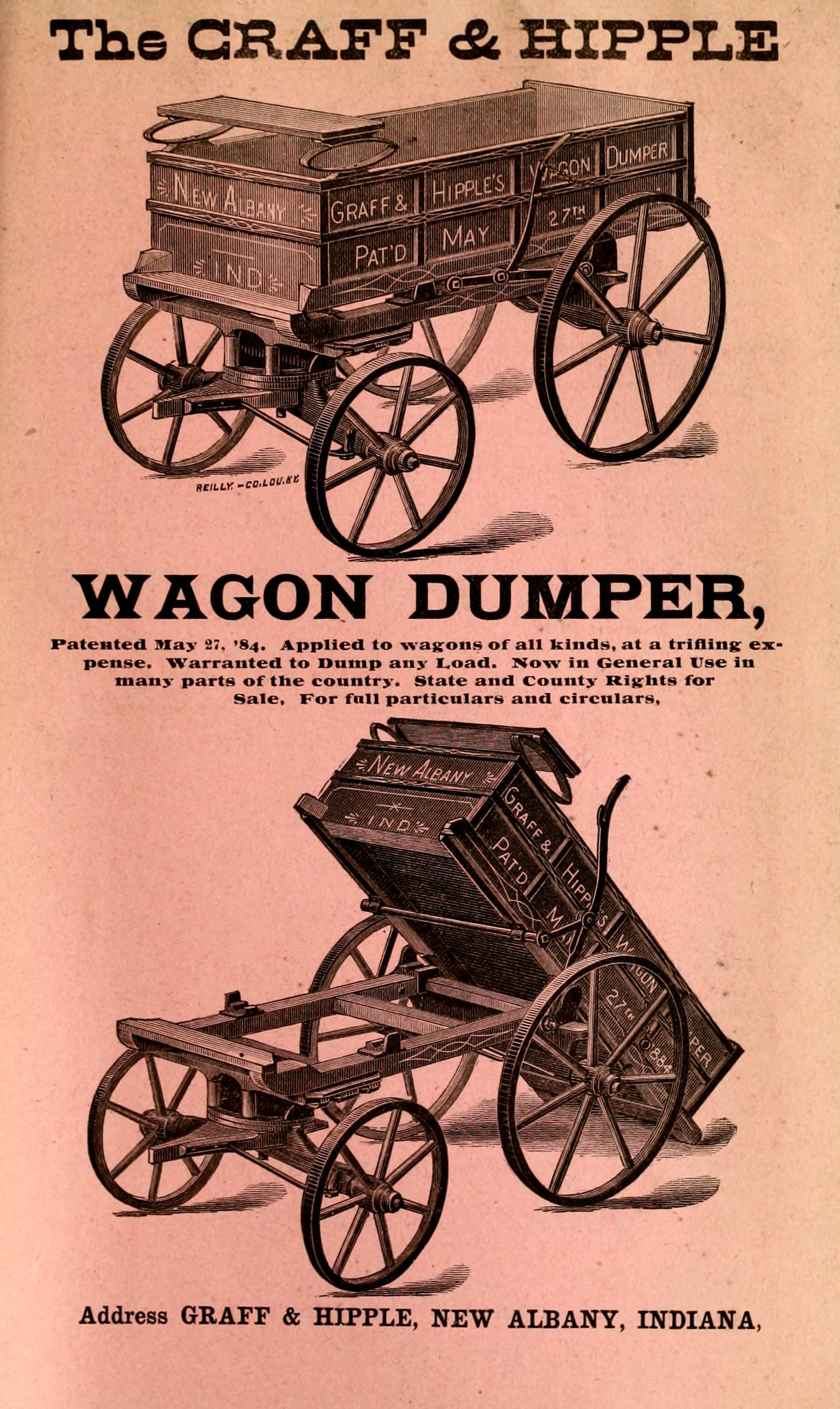 Advertisement for "Graff & Hipple's Wagon Dumper", a precursor to the modern dump truck.